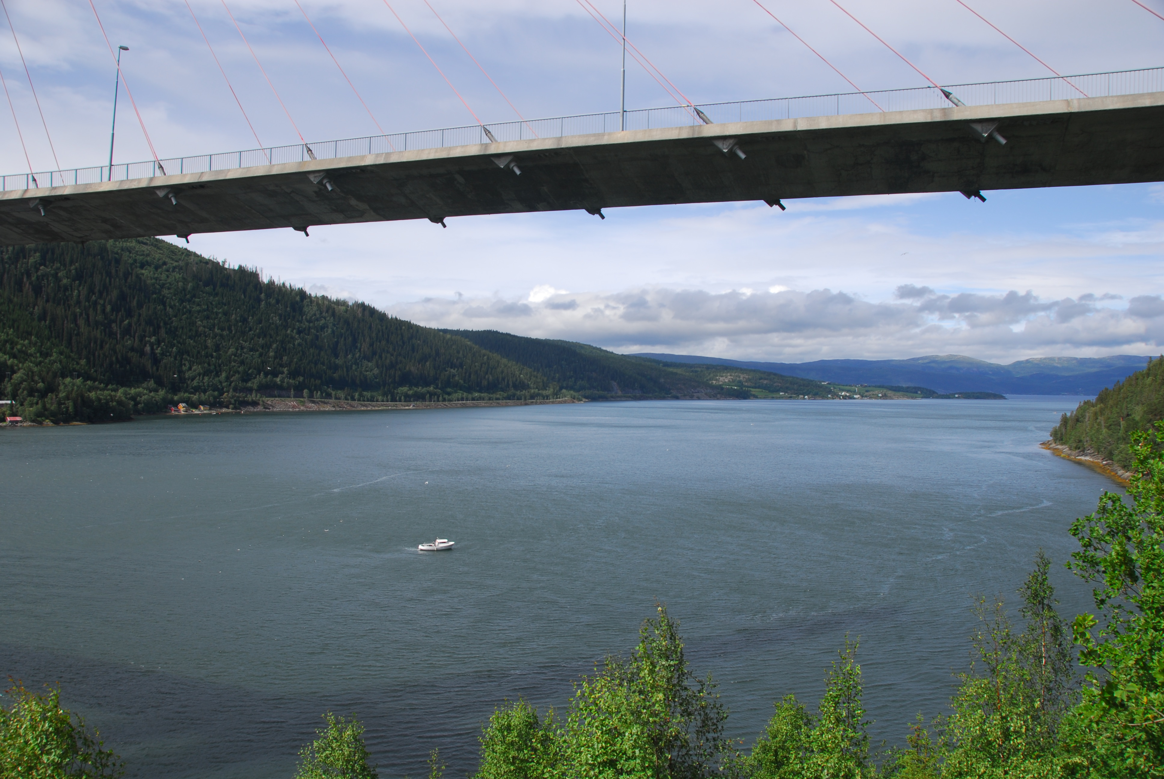 Skarnsund looking north with Inderøy to the right and Mosvik to the left. Skarnsund Bridge visible in the top.